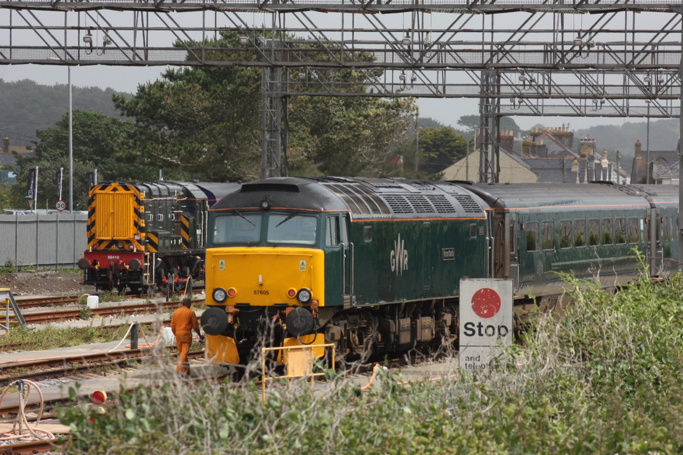 In the sidings at Long Rock, Penzance, are 08410, the depot shunter, and 57605, a 'Night Riviera' train engine.